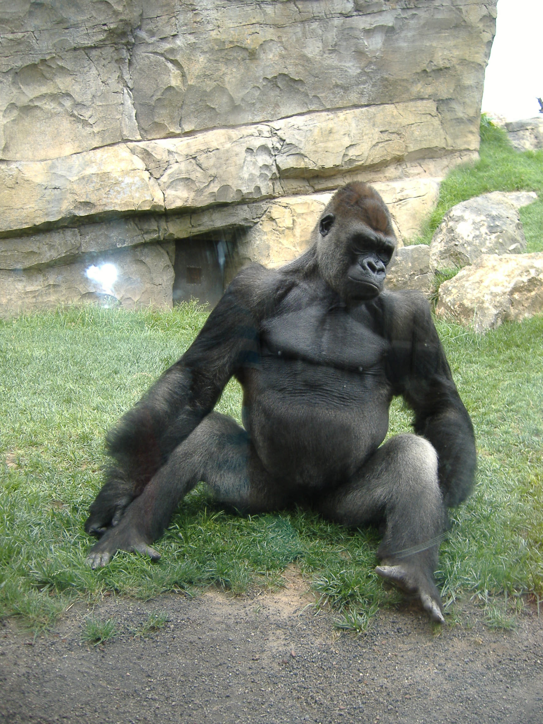 Male gorilla, in Bioparc Valencia